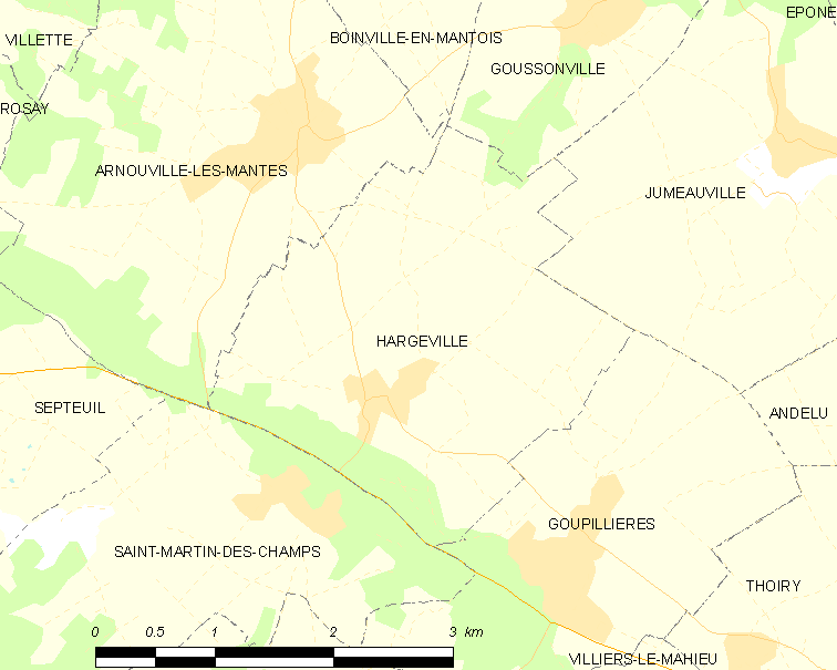 Map of French municipality Hargeville